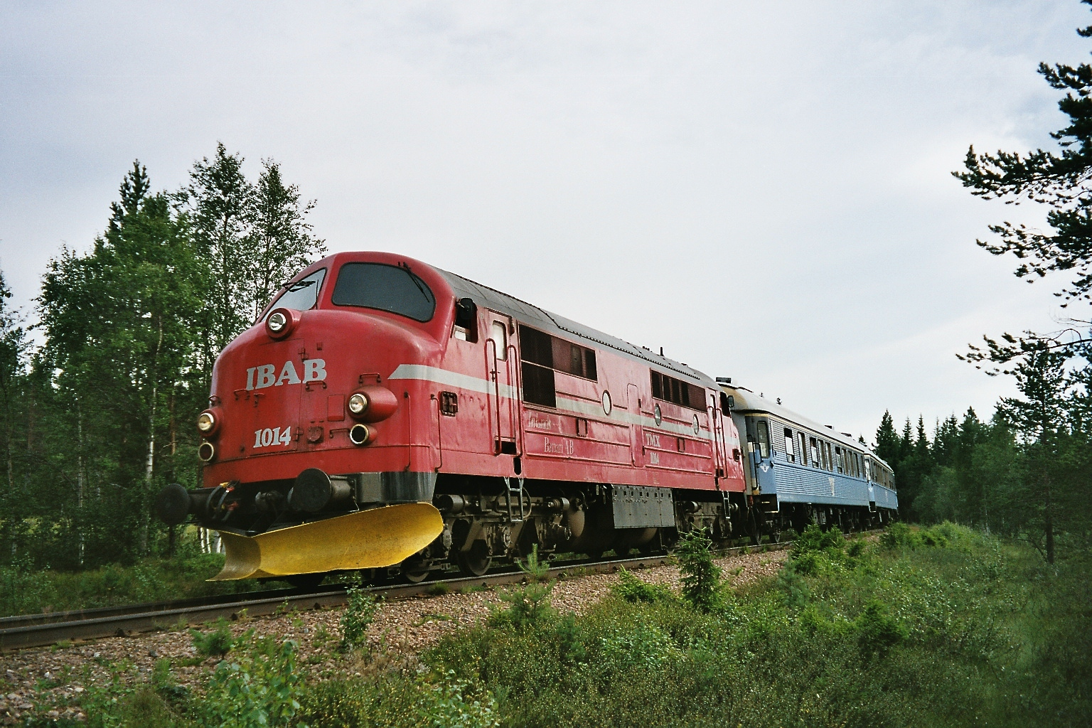 Train of Inlandsbanan with old SJ Waggons